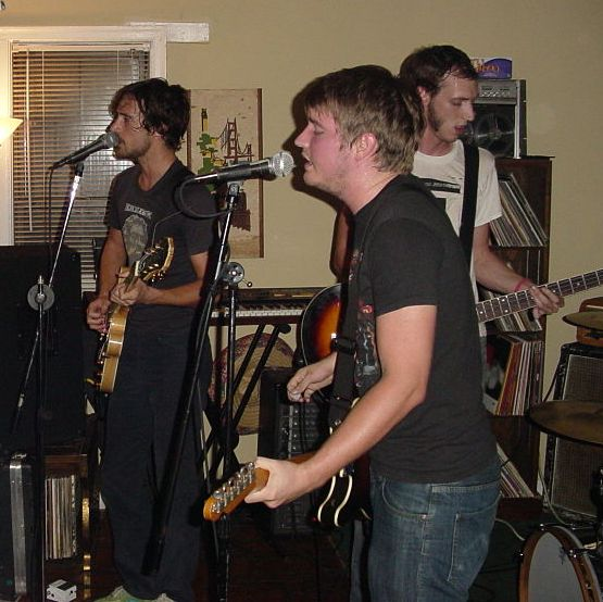 The American Princes 9/24/05